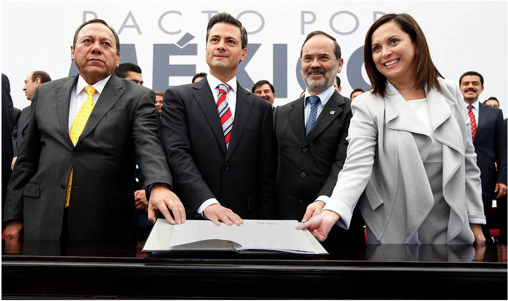 Signing of the Mexico Pact between President of Mexico Enrique Peña Nieto and the diferent politycal parties representatives.